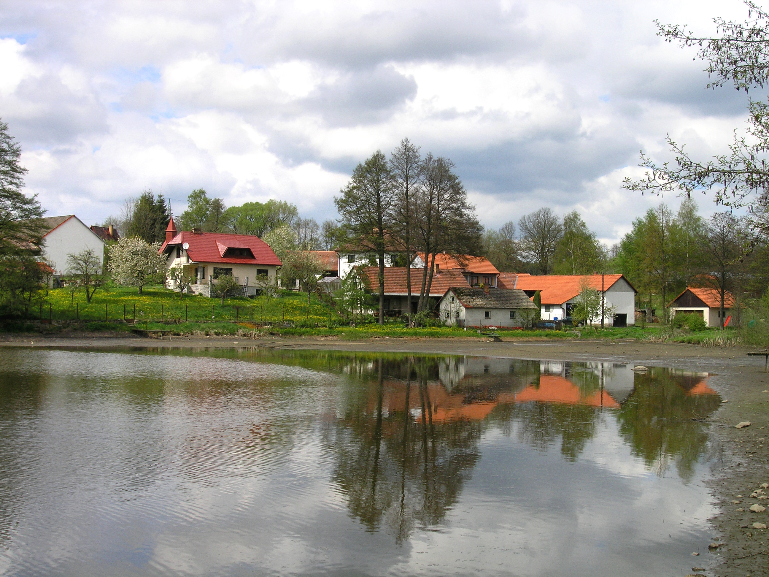 Heřmanečský pond in Heřmaneč, part of Počátky, Czech Republic